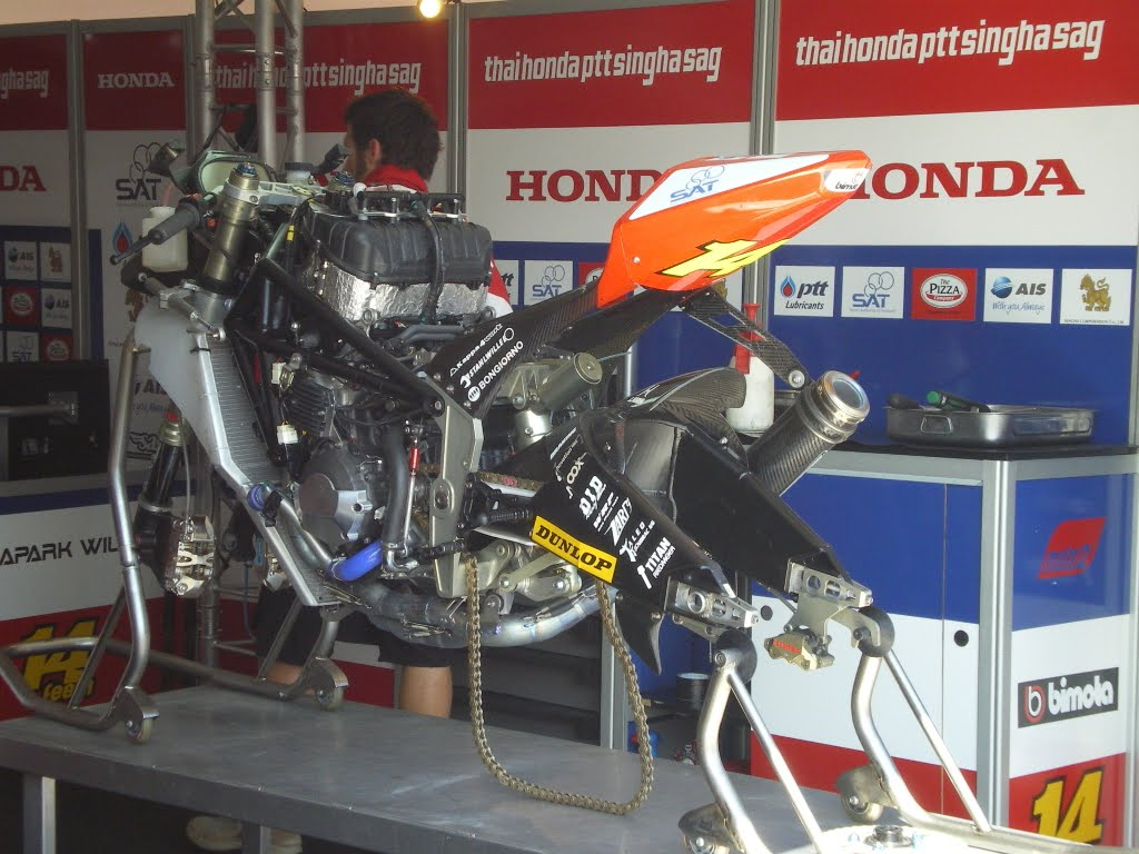 Bimota HB4 Naked